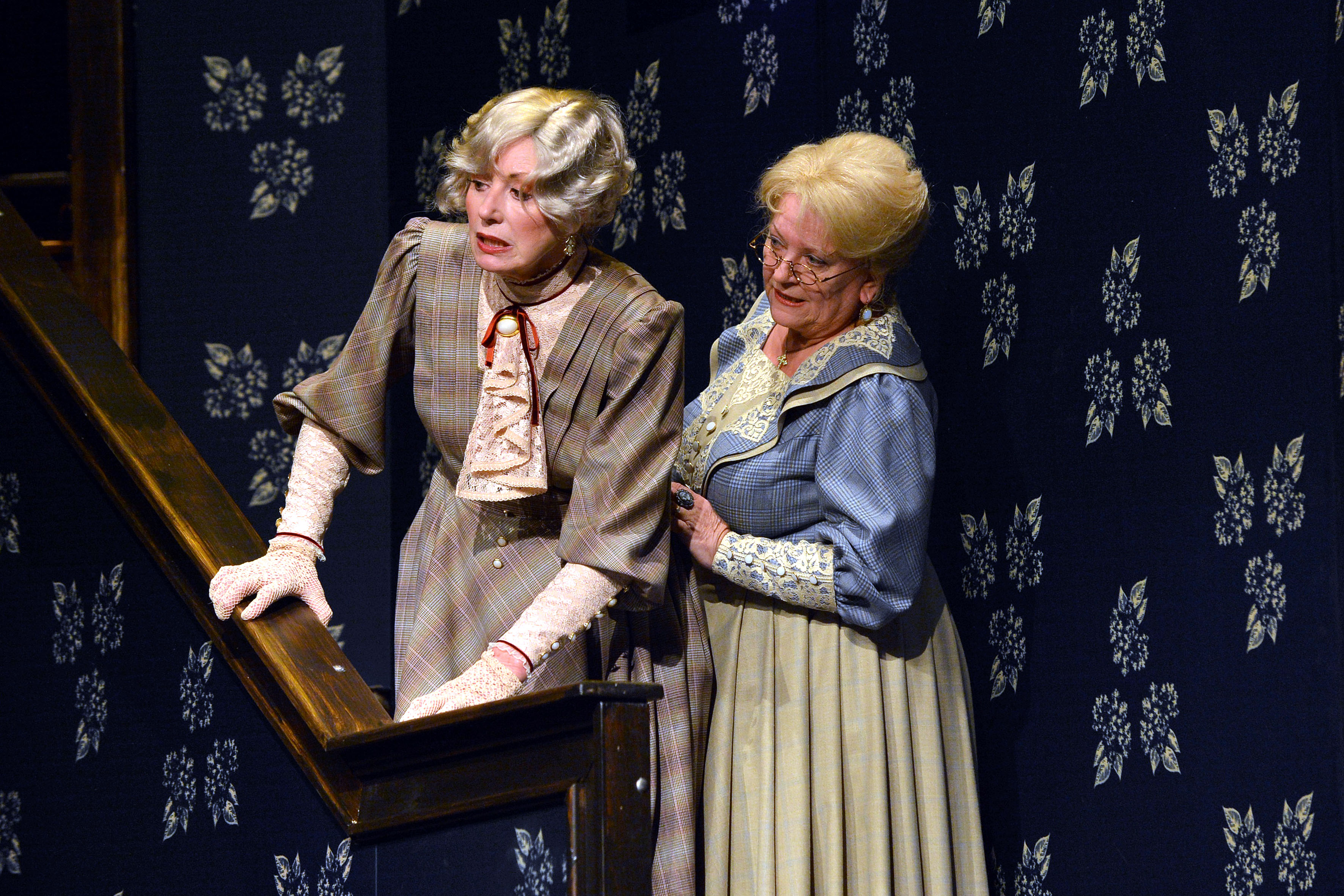 The play Arsenic and Old Lace (Brno City Theatre)